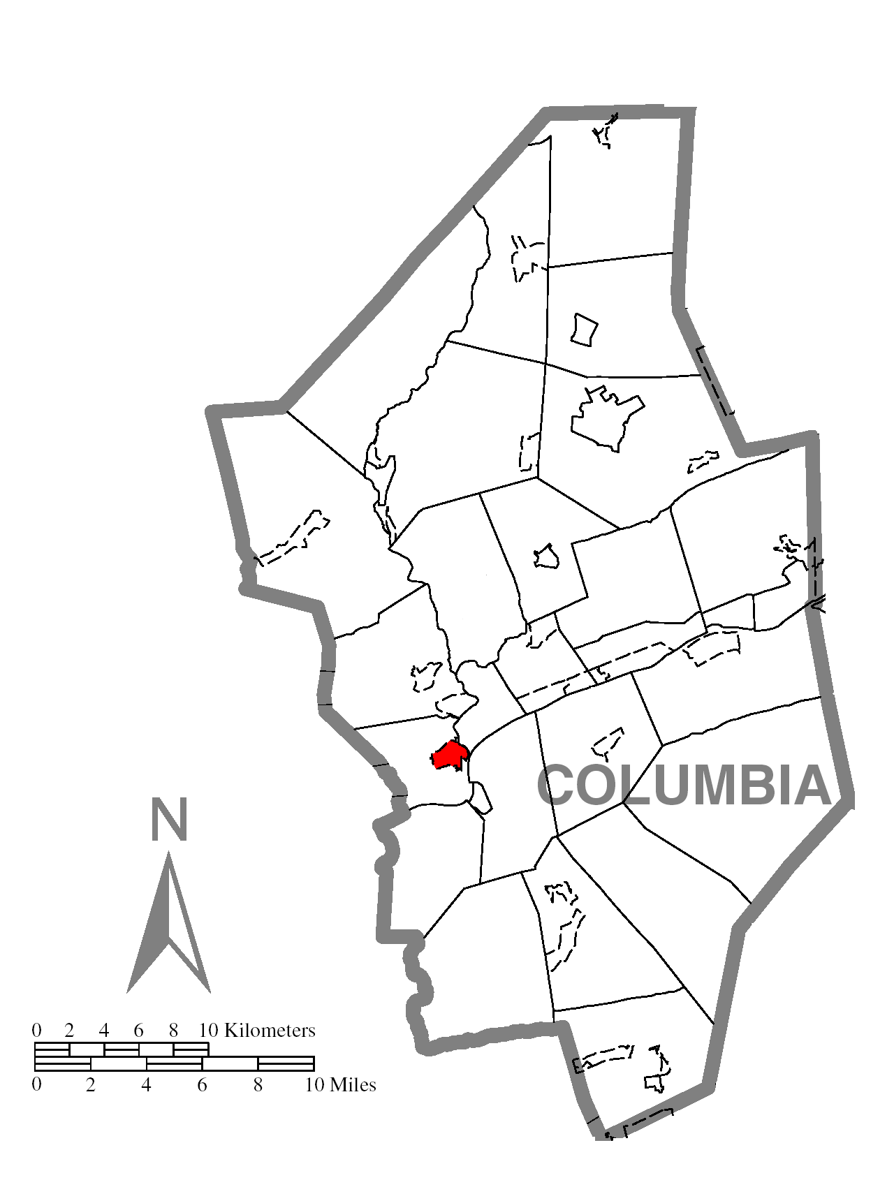 A map of Columbia County showing Rupert, Pennsylvania (alternate) highlighted on the map.